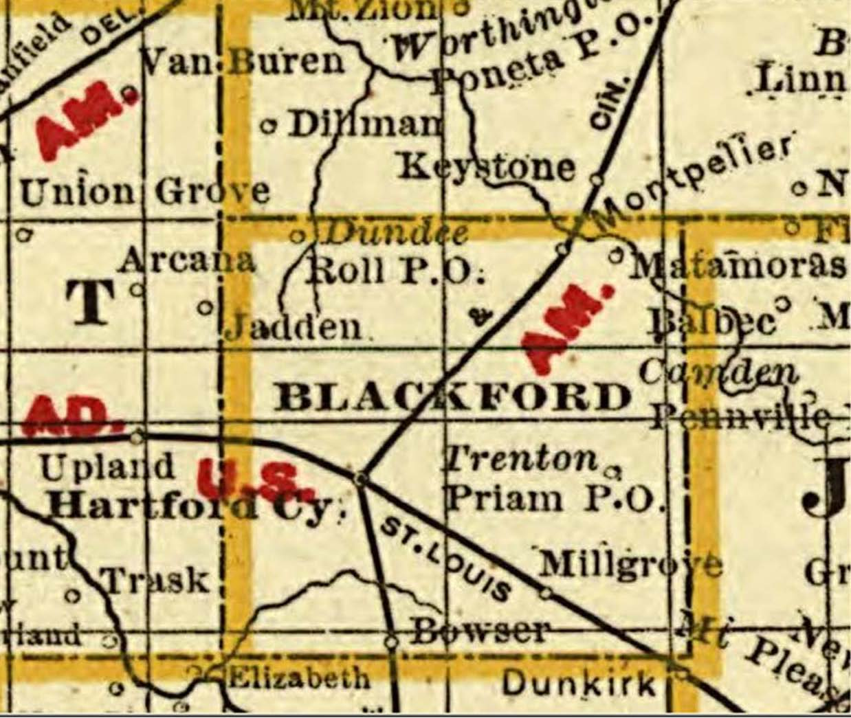 Blackford County, Indiana, portion of Cram's township and rail road map of Indiana published in 1888.